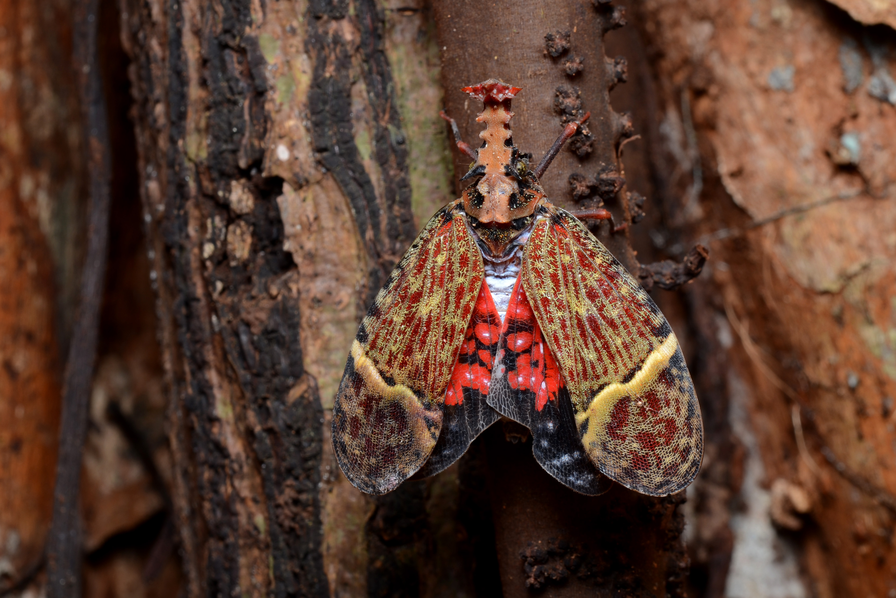 Phrictus quinqueparitus (Fulgoridae) on a Simarouba amara (Simaroubaceae) La Selva Biological Station, Heredia Province, Costa Rica.